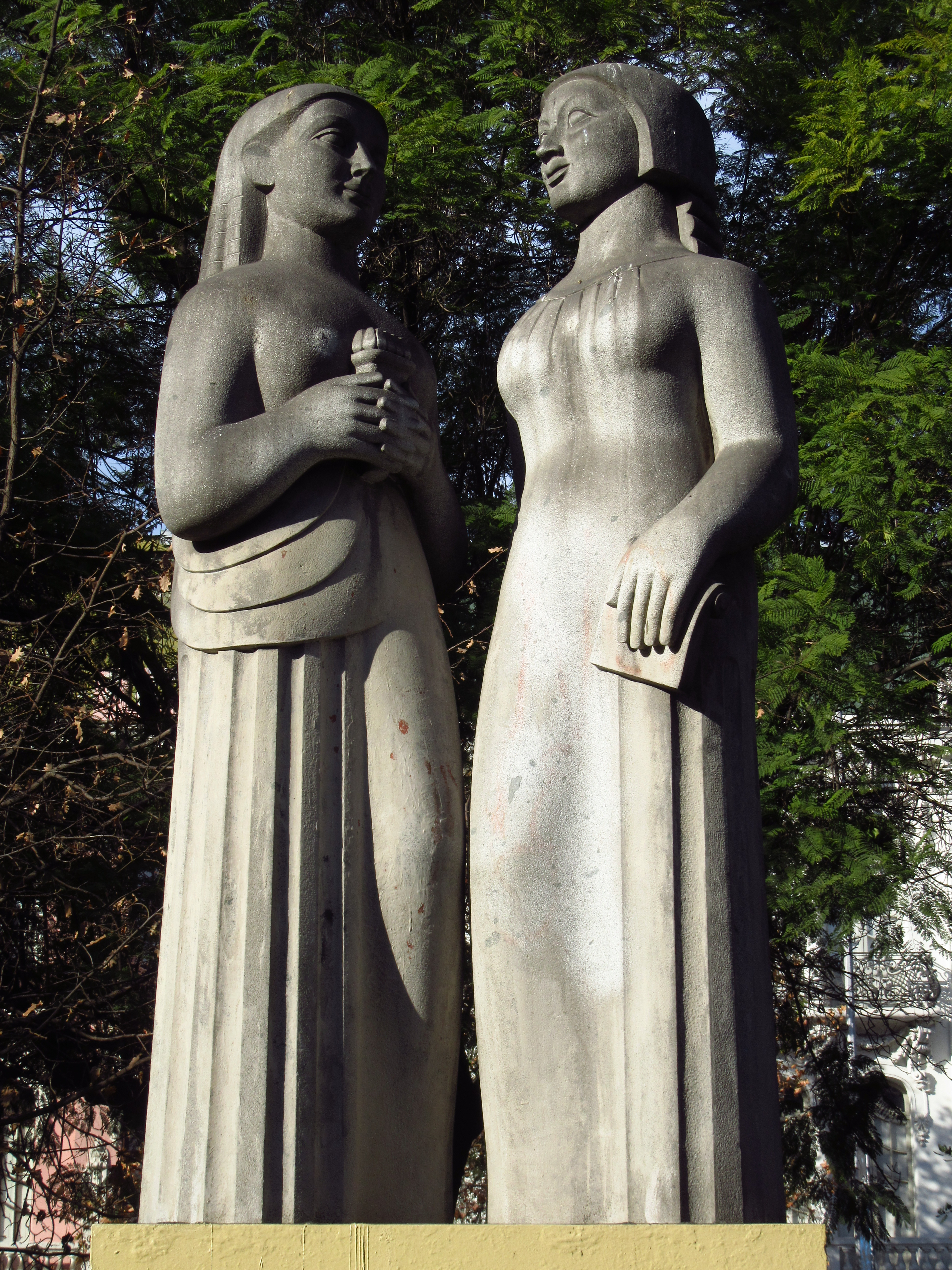 2017 in Santiago de Chile